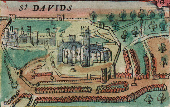 Insert from John Speeds County maps of Wales for first published in The Theatre of the Empire of Great Britain by George Humble